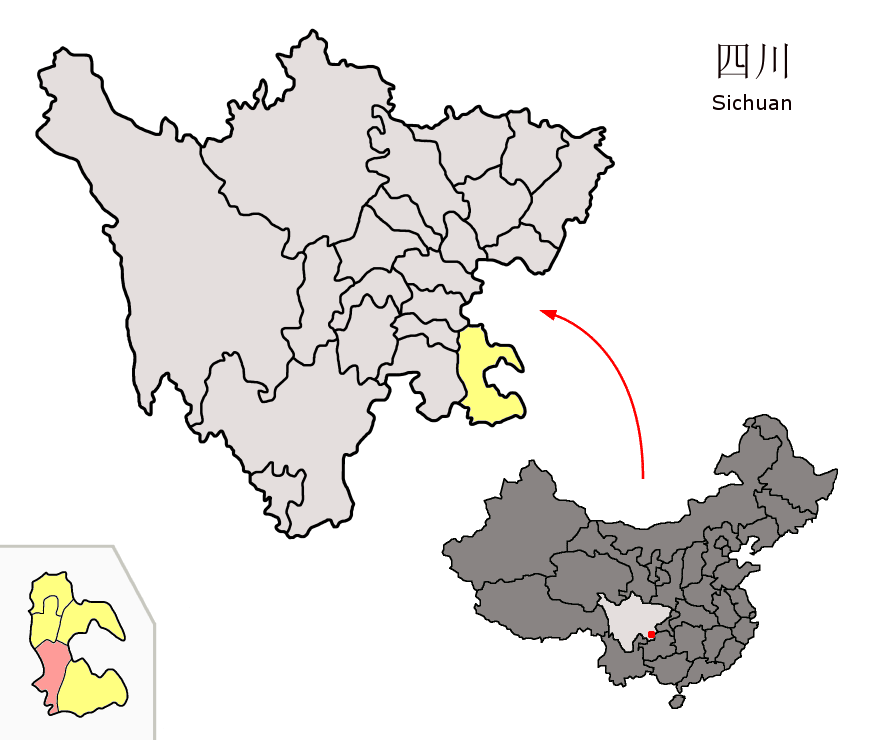 Location of Xuyong County (pink) and Luzhou Prefecture (yellow) within Sichuan province of China Map drawn in october 2007 using various sources, mainly : Sichuan province administrative regions GIS data: 1:1M, County level, 1990 Sichuan Counties map from